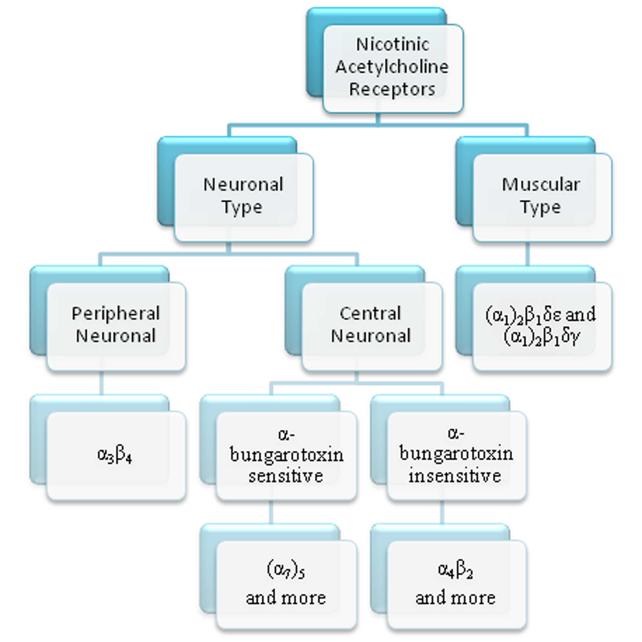 Flowchart of nicotinic receptors